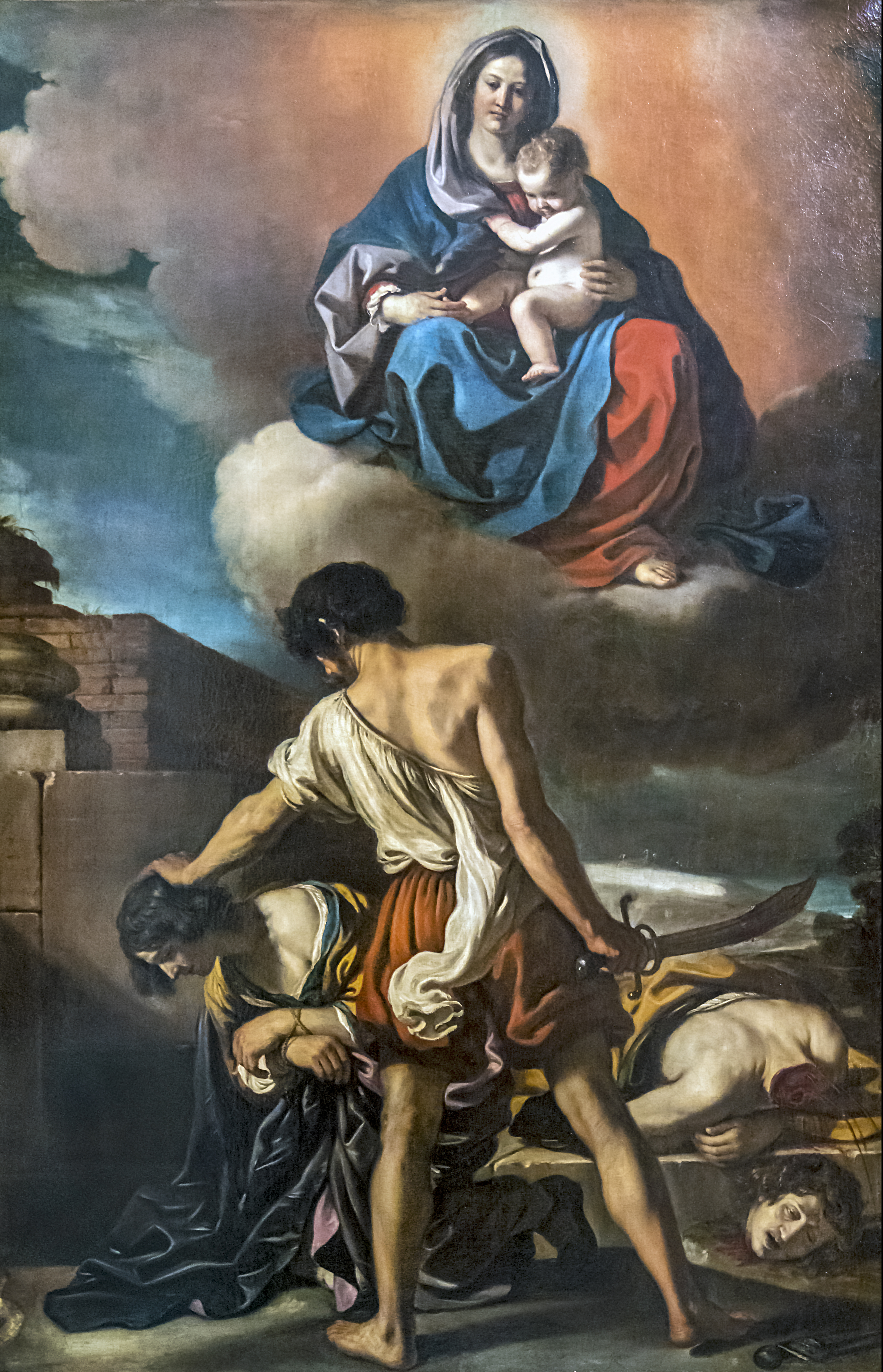 John and Paul are not the evangelist and the apostle but two brothers martyred in 363.